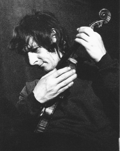 Jan Hrubý (born 1948), czech rock violinist, concert of Čundrgrund group, Pardubice, cca 1977-1978